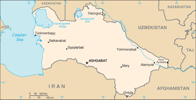 CIA World Factbook map of Turkmenistan